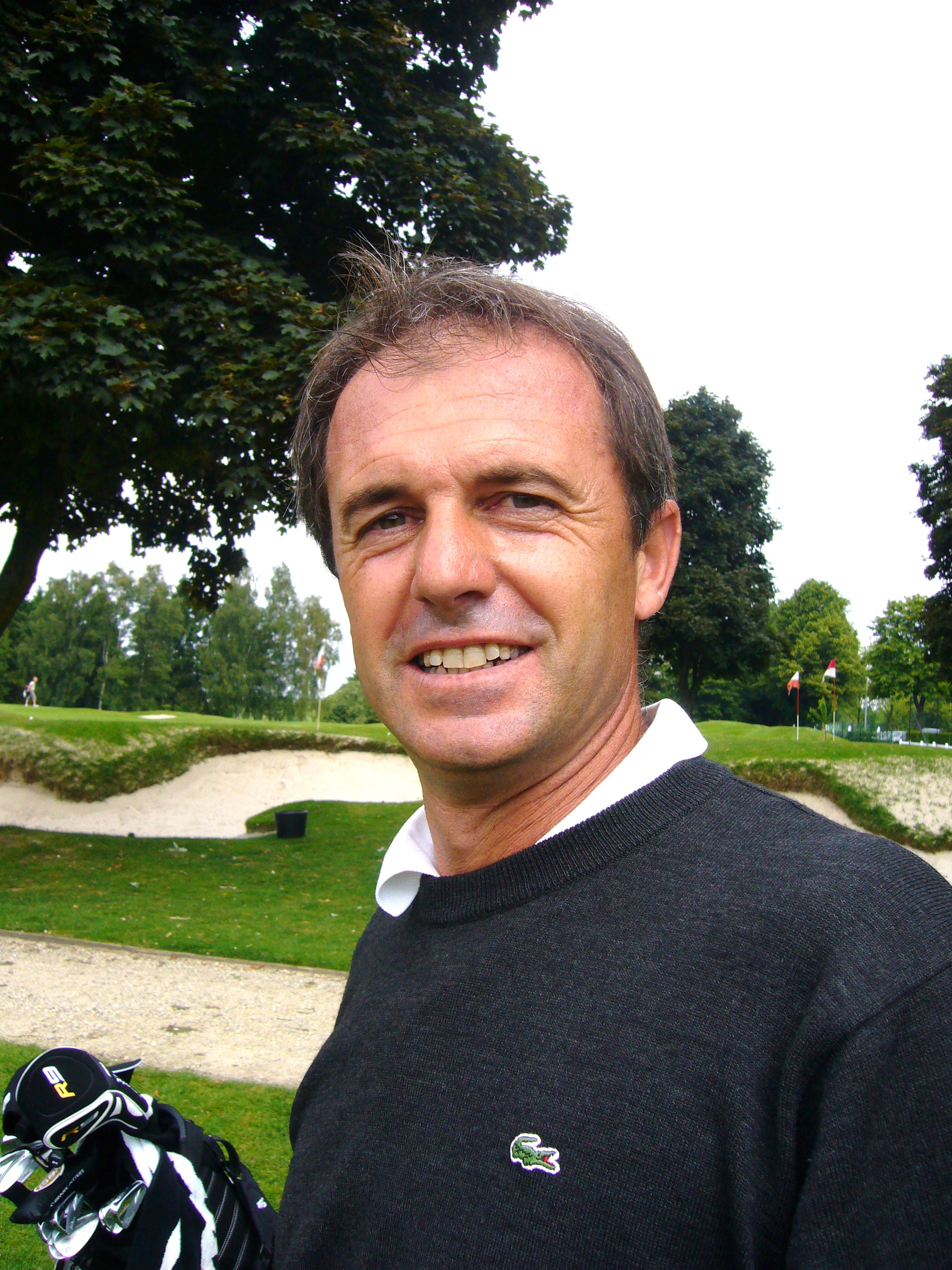 Arruti at the Telenet Trophy at Waterloo GC in Belgium